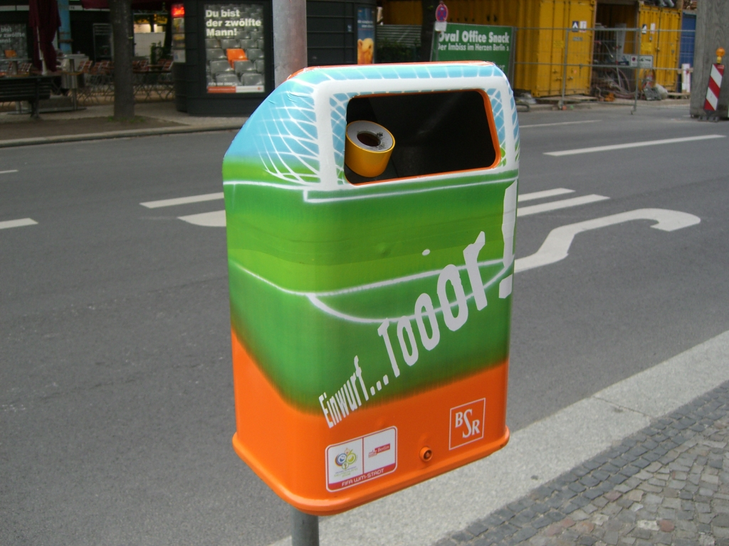 trash can in Berlin during the Fifa World Cup(TM)